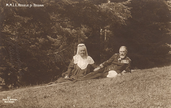 Queen Elisabeth of Romania and Carol I of Romania - Edit. C. Sfetea Bucureşti